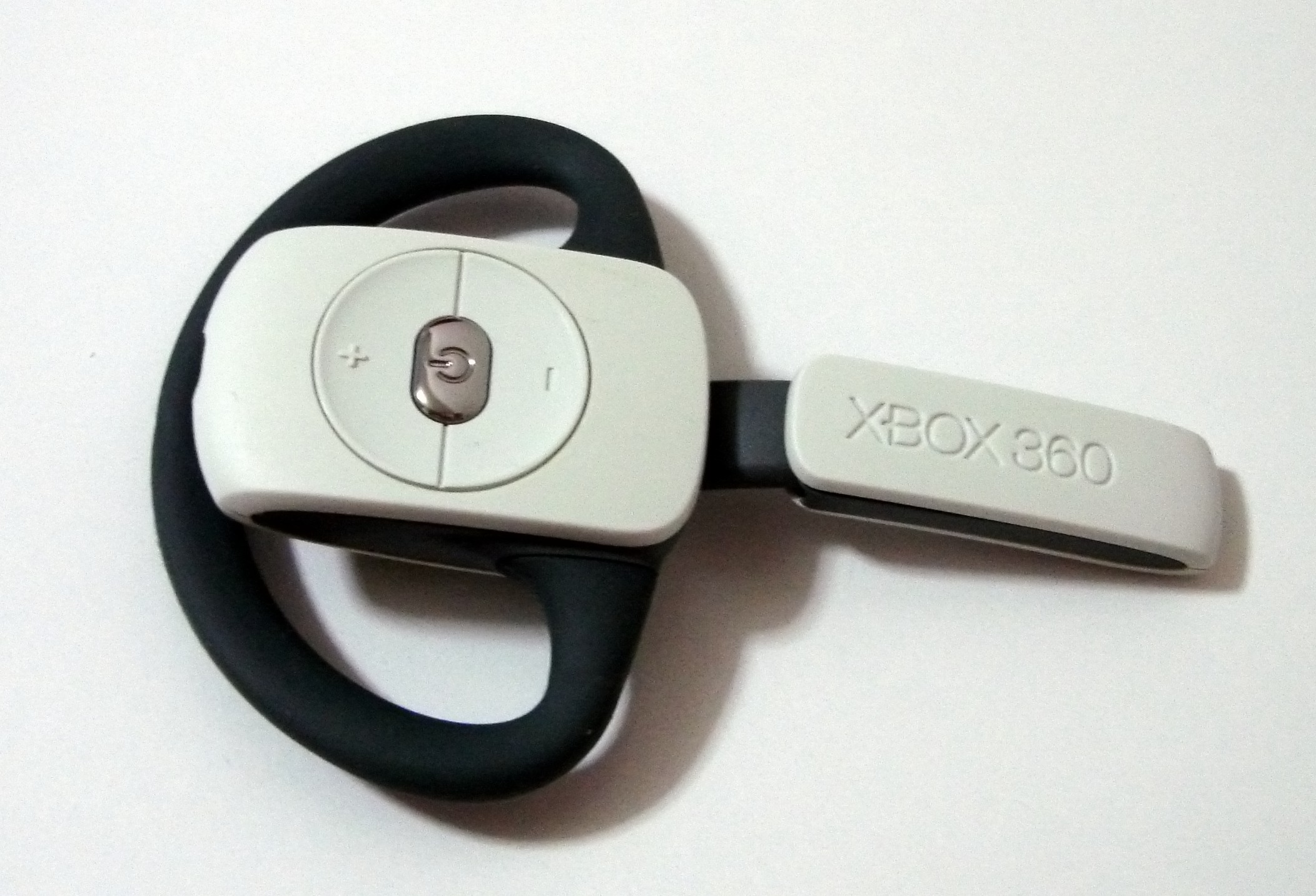 Xbox 360 Wireless Headset